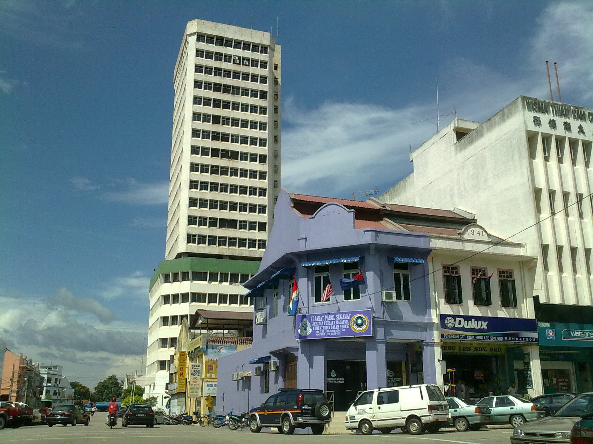 Bangunan Tertinggi Segamat